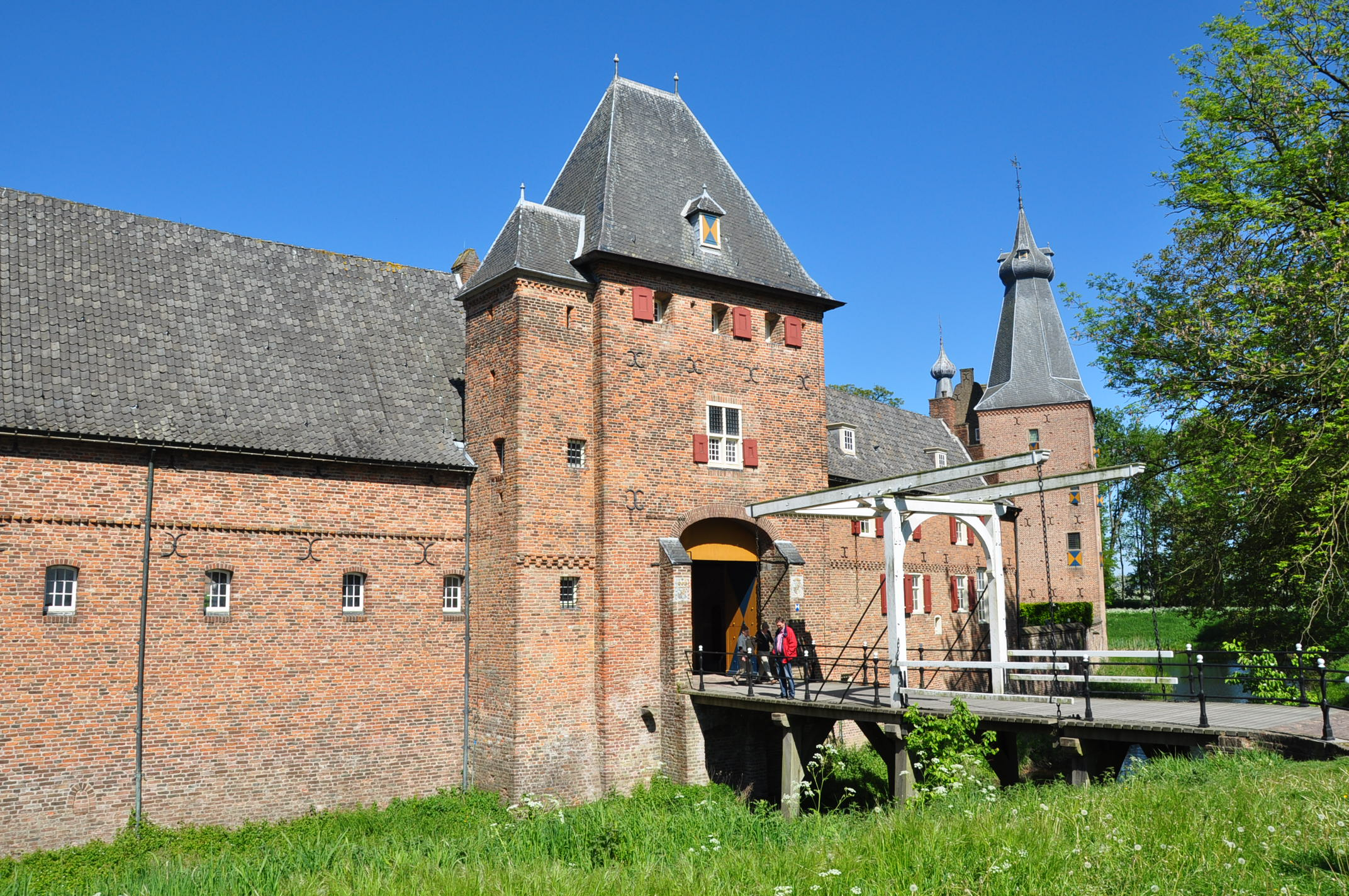 Doorwerth Castle, entrance gate (Doorwerth, Renkum municipality, Netherlands).